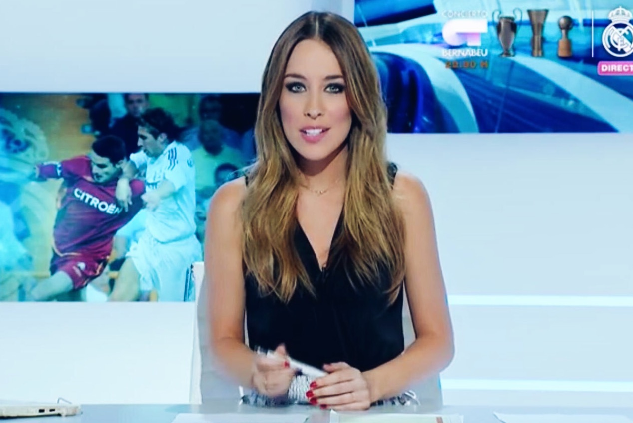 Carlota Vizmanos